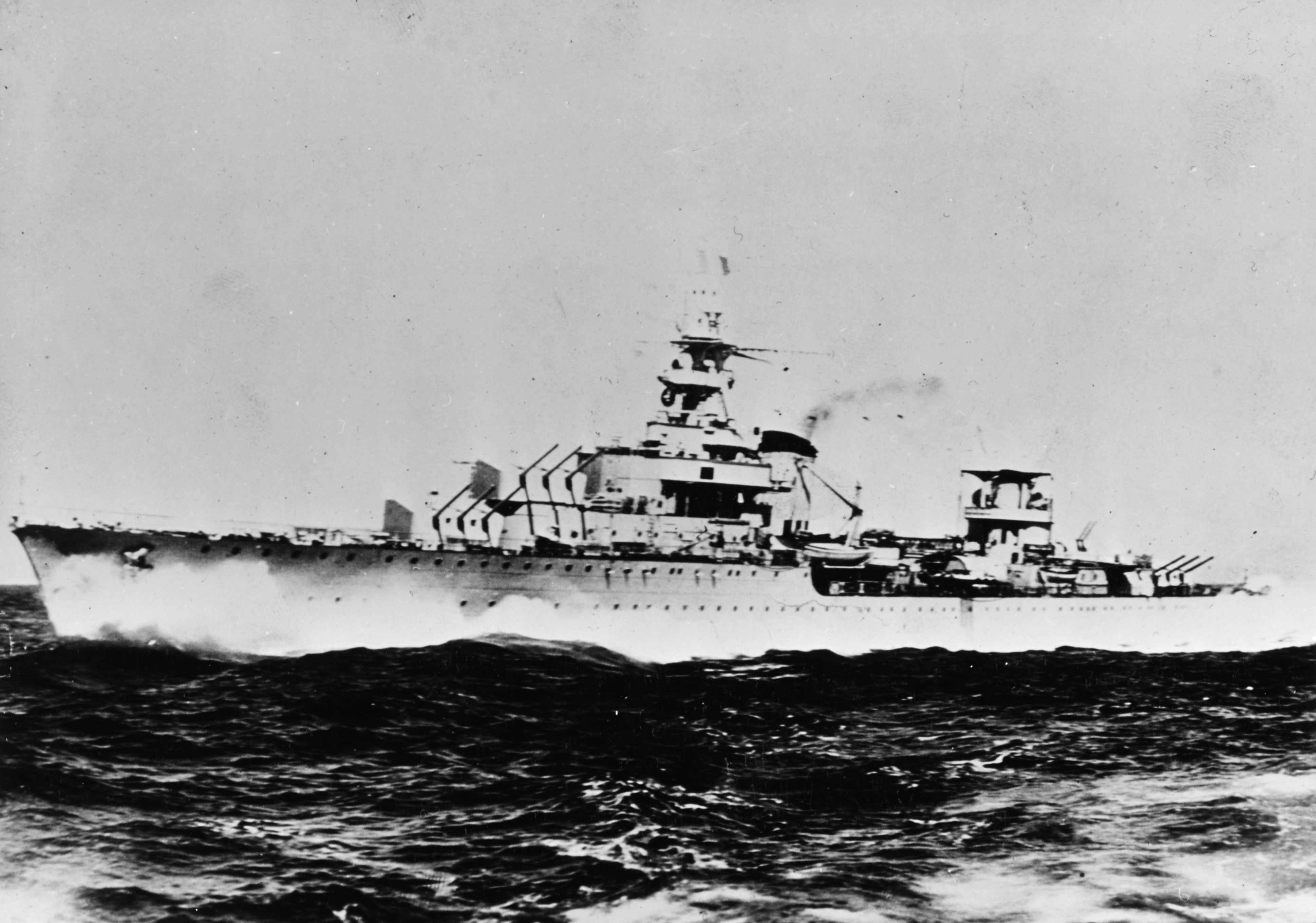 The French cruiser Émile Bertin underway before the Second World War.